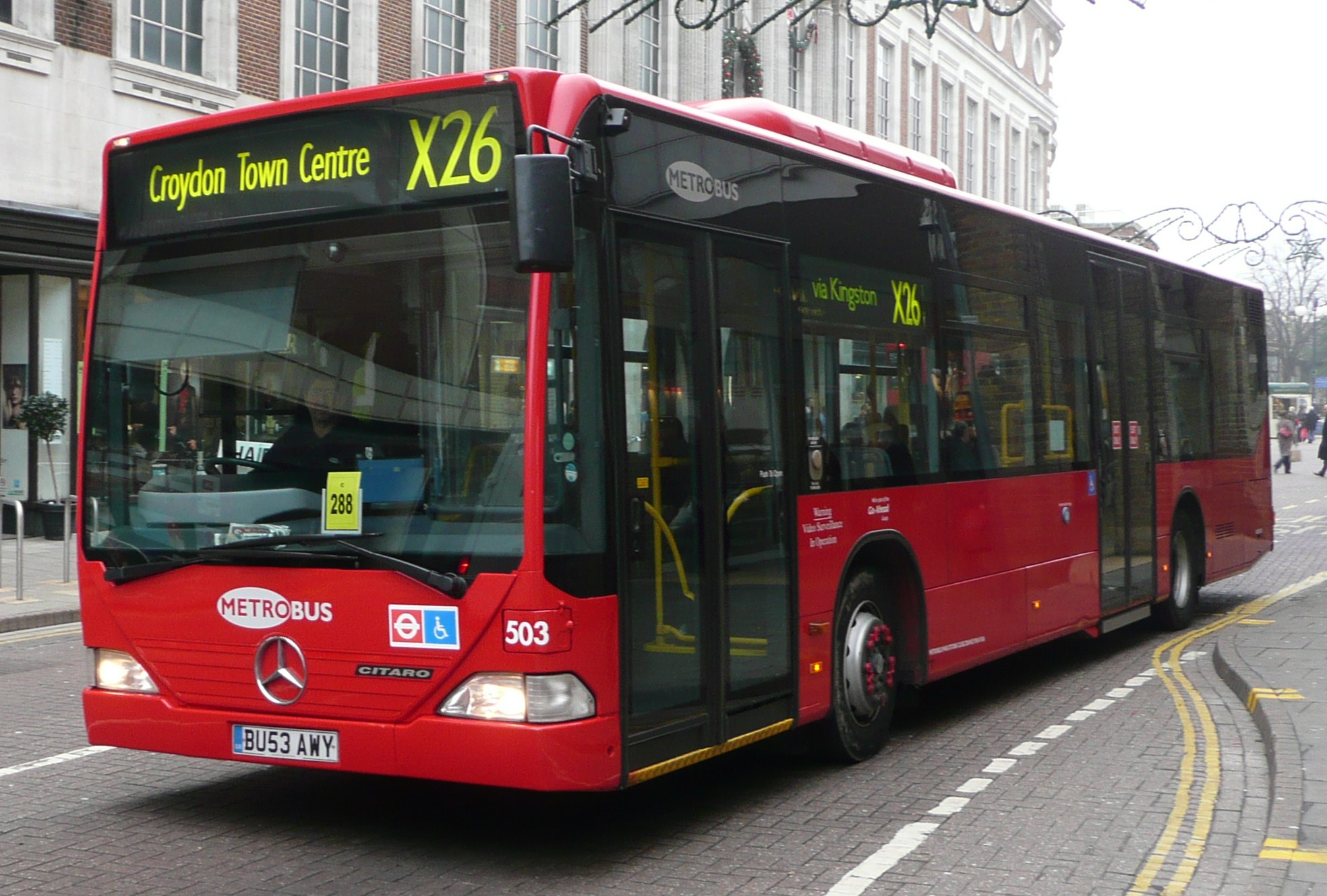 Metrobus' 503 (BU53 AWY), a Mercedes-Benz Citaro in Kingston on route X26. This is one of the buses on loan from Quality Line to cover for the increase in frequency of the route.